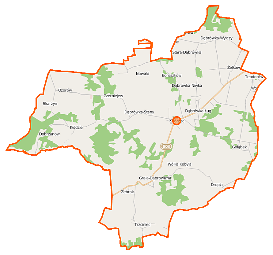 Map of Gmina Skórzec, Poland This map of Skórzec (gmina) was created from OpenStreetMap project data, collected by the community. This map may be incomplete, and may contain errors. Don't rely solely on it for navigation. Border coordinates52.173721.9723←↕→22.217152.0331